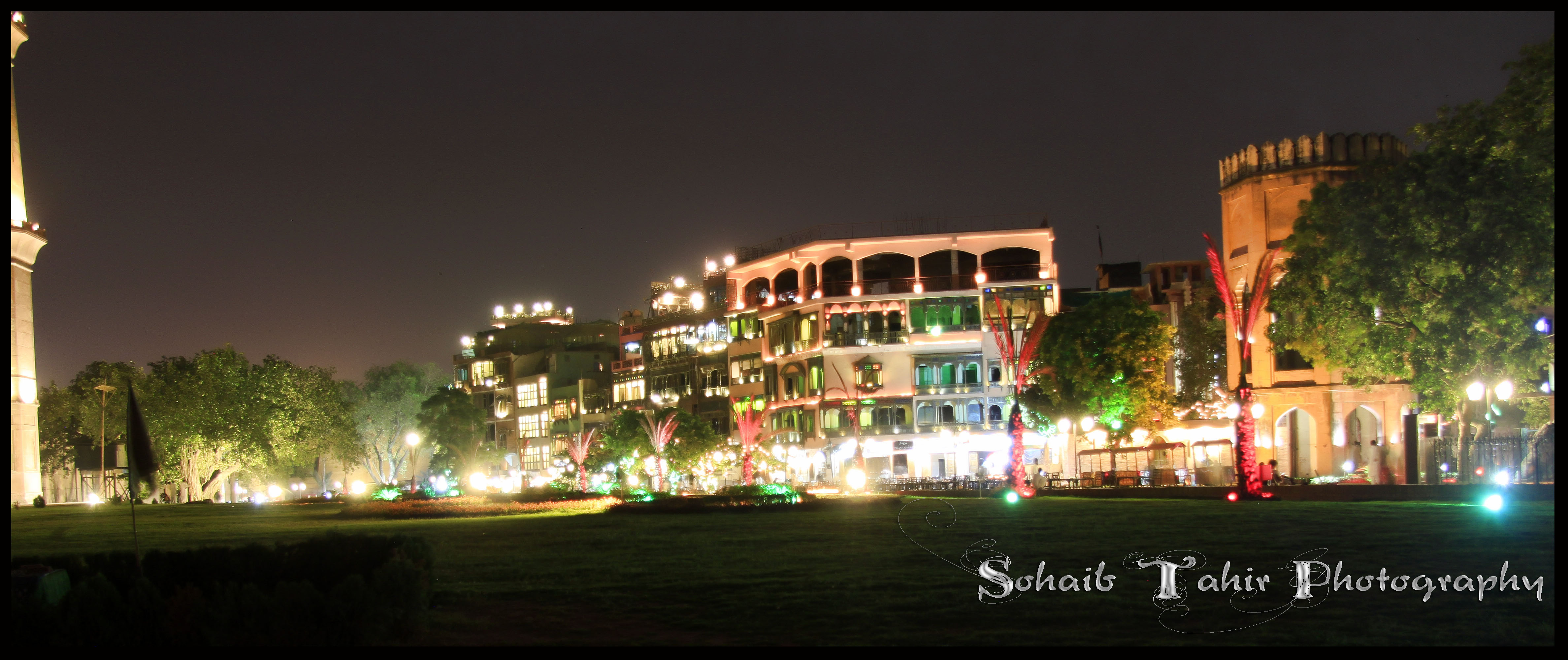 Lahore Fort Food Street. Best place of all Types of food in Lahore.